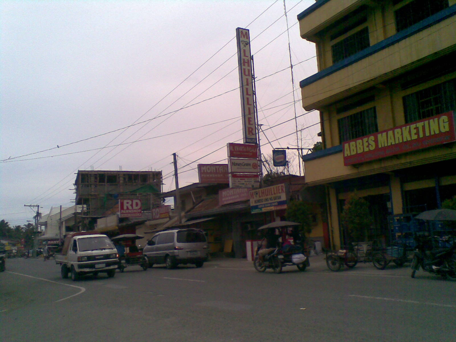 Picture taken last January 30, 2014